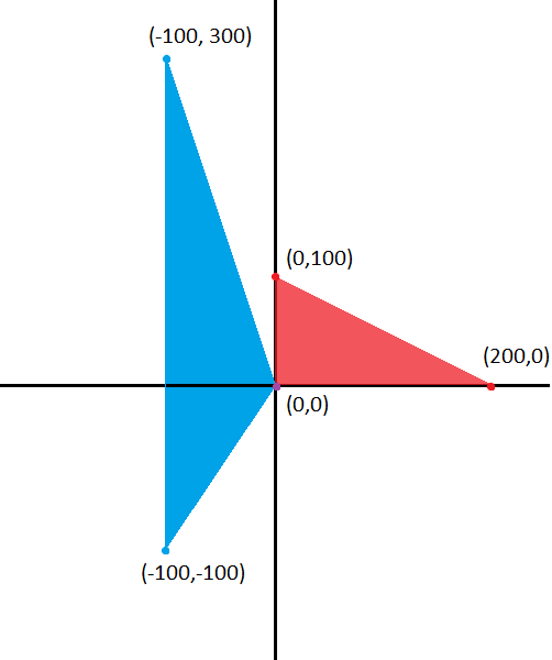 An example of a simple affine transformation on the Euclidean plane.